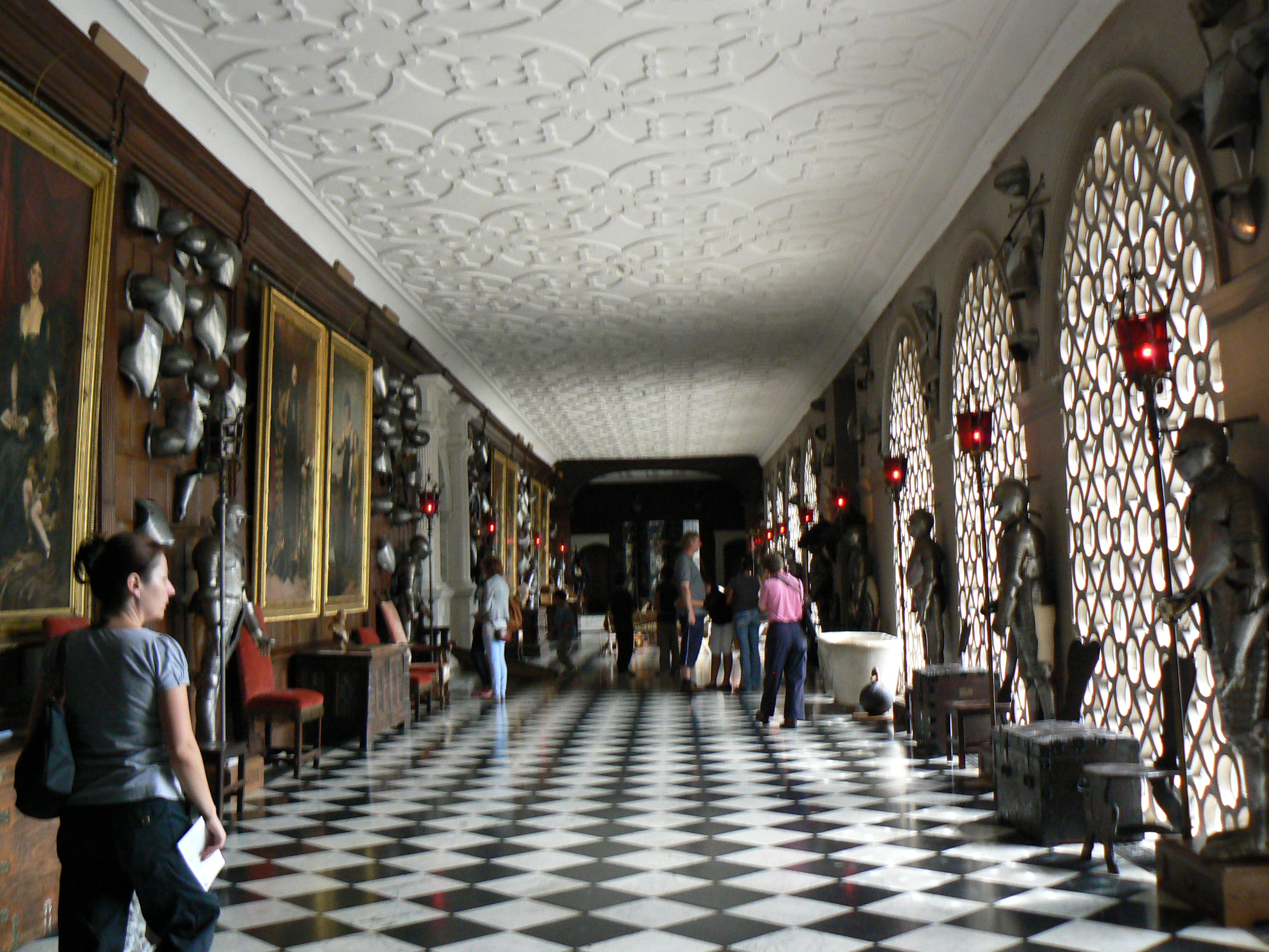 See title.